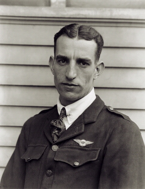 Air mail pilot Wilfred A. "Tony" Yackey wearing wings for identification. Creator/Photographer: Unidentified photographer Medium: Black and white photographic print Persistent URL: [1] Repository: Smithsonian National Air and Space Museum Archives Image number: SI-00181638